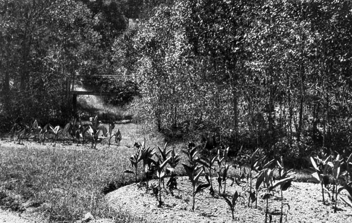 Paths, constructed by Sir Thomas Herbert John Chapman Goodwin, in the grounds of Government House, Fernberg Road, Paddington, Brisbane. (This building is also known as Fernberg.)